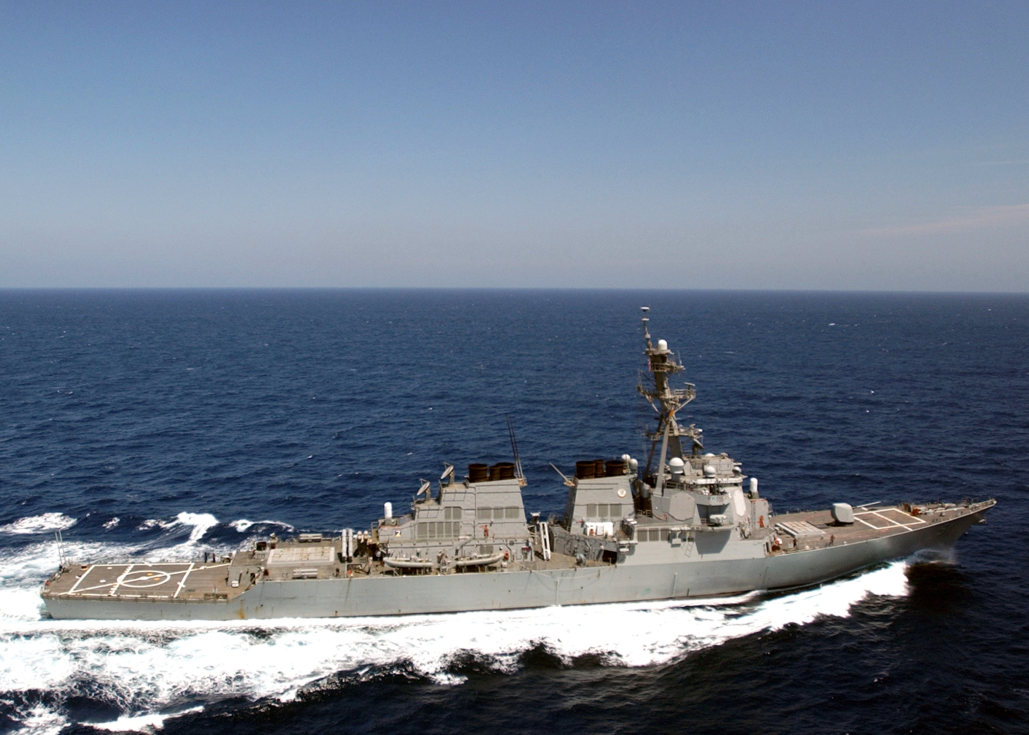 Central Command's area of Responsibility (Mar. 29, 2003) -- The guided missile destroyer USS Arleigh Burke (DDG 51) conducts underway operations in support of Operation Iraqi Freedom. Arleigh Burke was one of many U.S. Navy surface combatants to fire Tomahawk Land Attack Missiles (TLAMs) in support of Operation Iraqi Freedom, the multi-national coalition effort to liberate the Iraqi people, eliminate Iraq’s weapons of mass destruction, and end the regime of Saddam Hussein. U.S. Navy photo by Chief Journalist Alan J. Baribeau. (RELEASED)